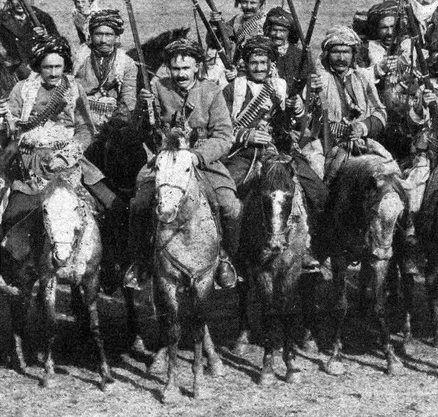 Kurdish Cavalry in the passes of the Caucasus Mountains.